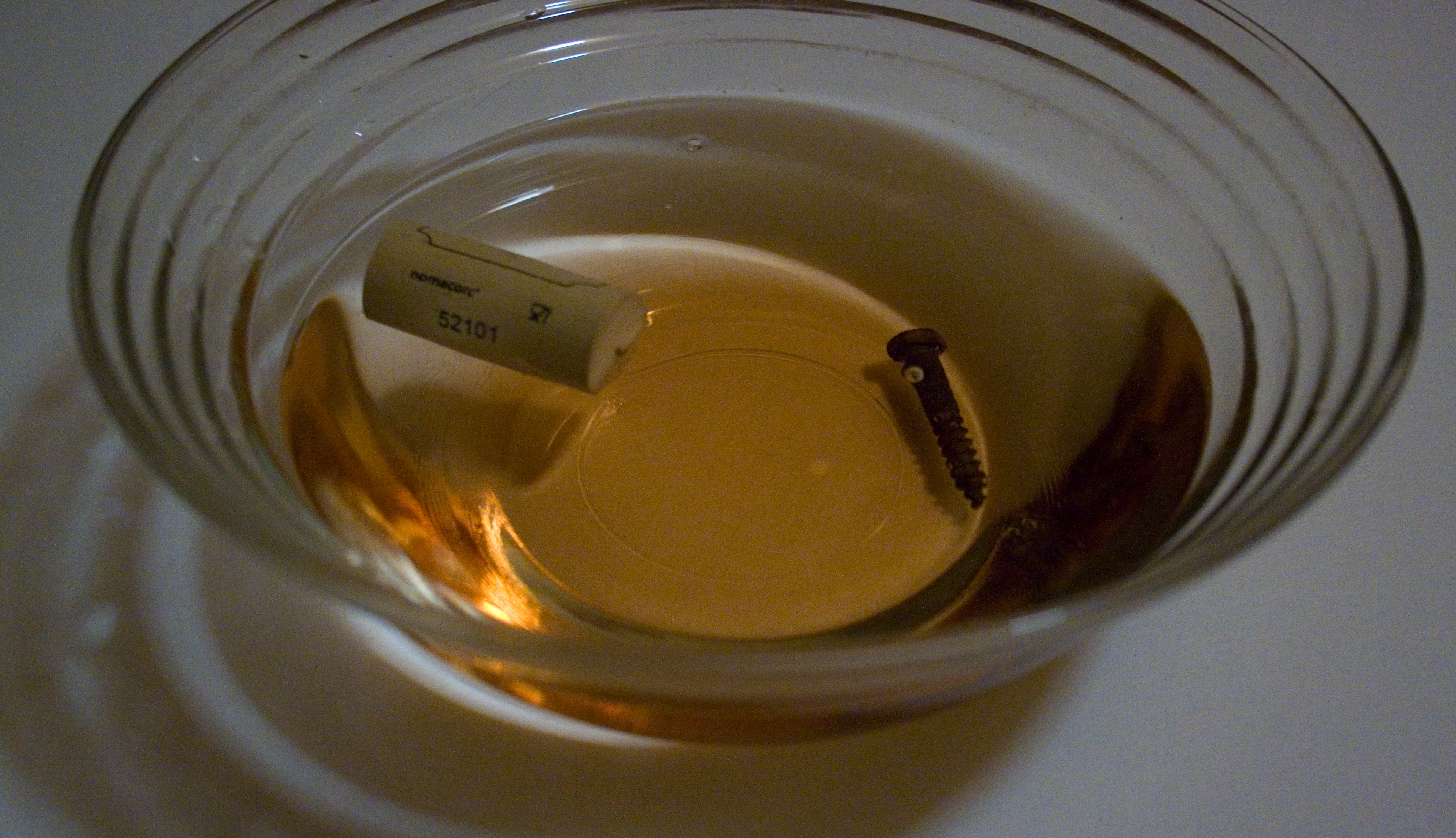 The cork floats on water, its relative density is inferior to 1. The metallic screw sinks in water, its relative density is superior to 1.